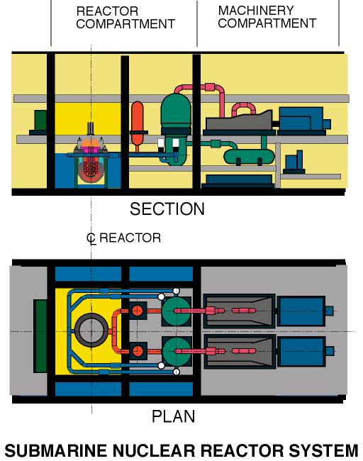 Description: Submarine Nuclear Reactor System Section and Plan Author: Webber Source: "own work"